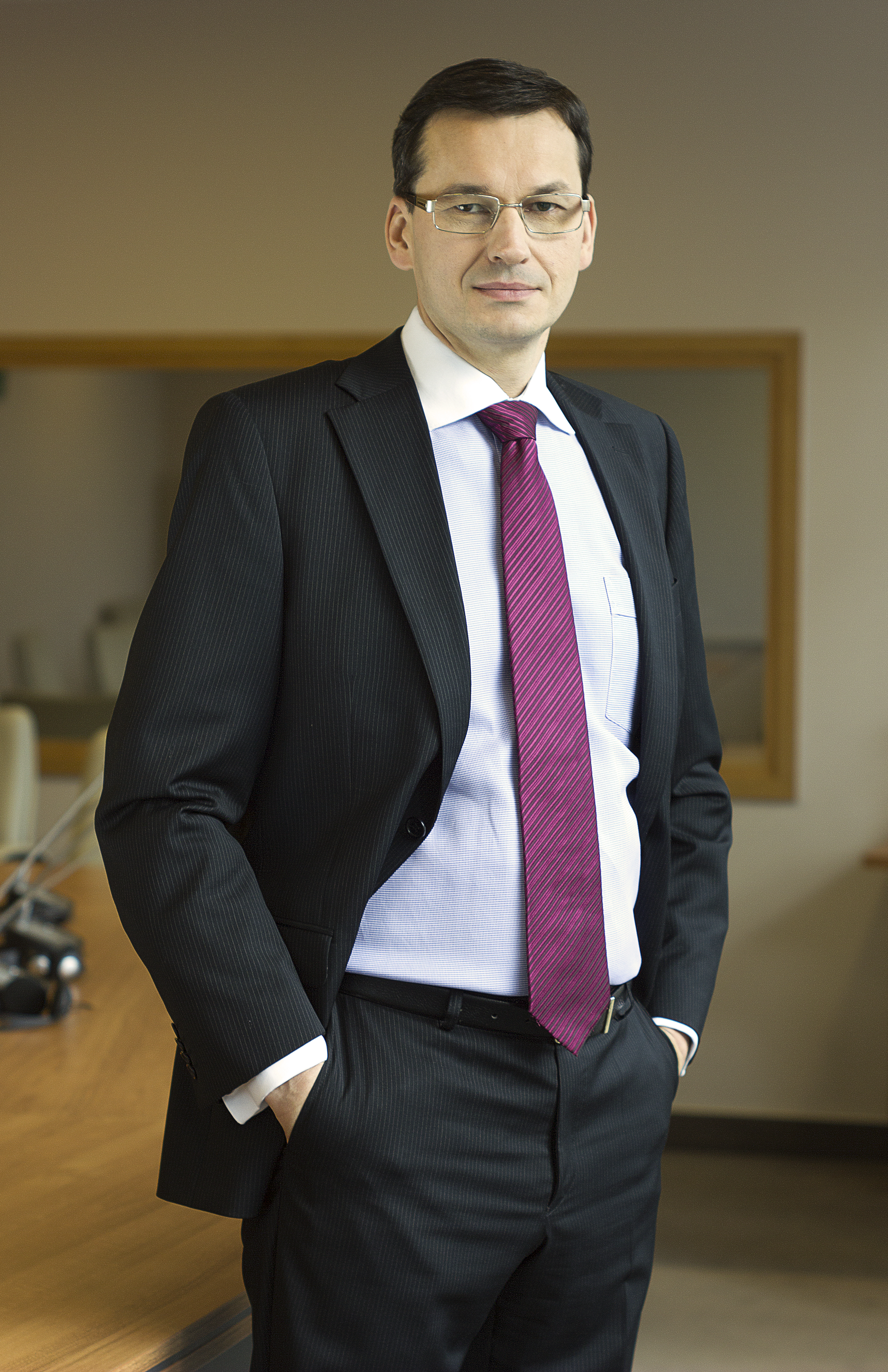 Mateusz Morawiecki, CEO, Bank Zachodni WBK